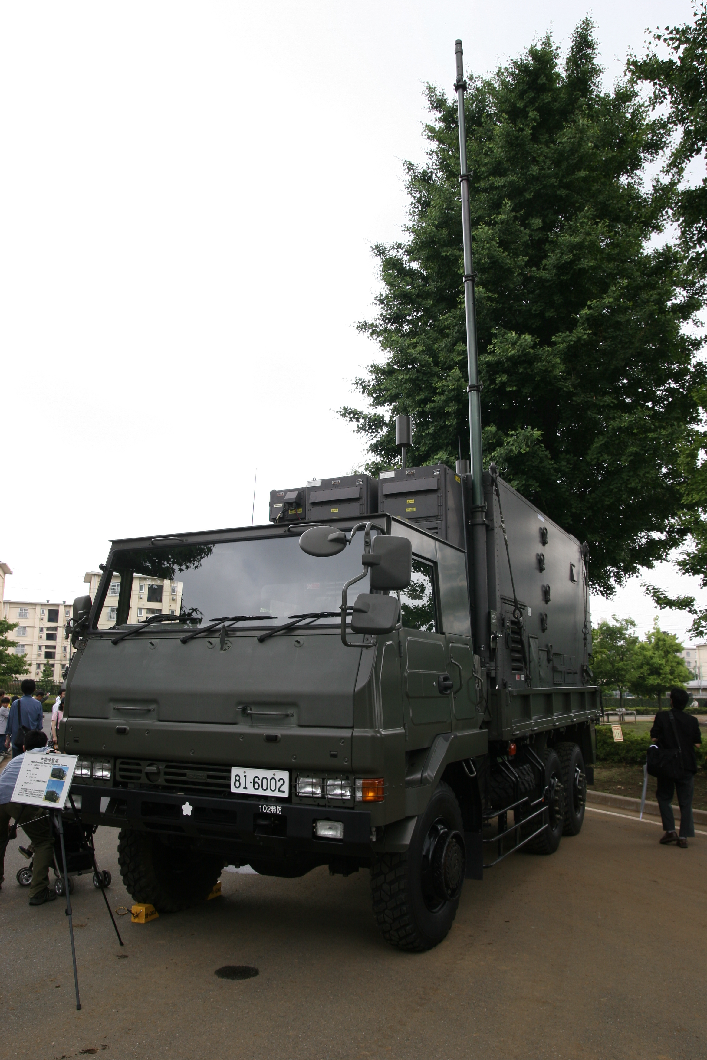 JGSDF's Biological Reconnaissance Vehicle in Camp Omiya.